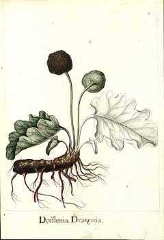 Sessé, M., Cervantes, V., Mociño, M., Drawings from the Spanish Royal Expedition to New Spain (1787–1803) (to be published in the Flora Mexicana, Real Jardin Botanico, Madrid, Spain), t. [32][Real Jardin Botanico no. [32